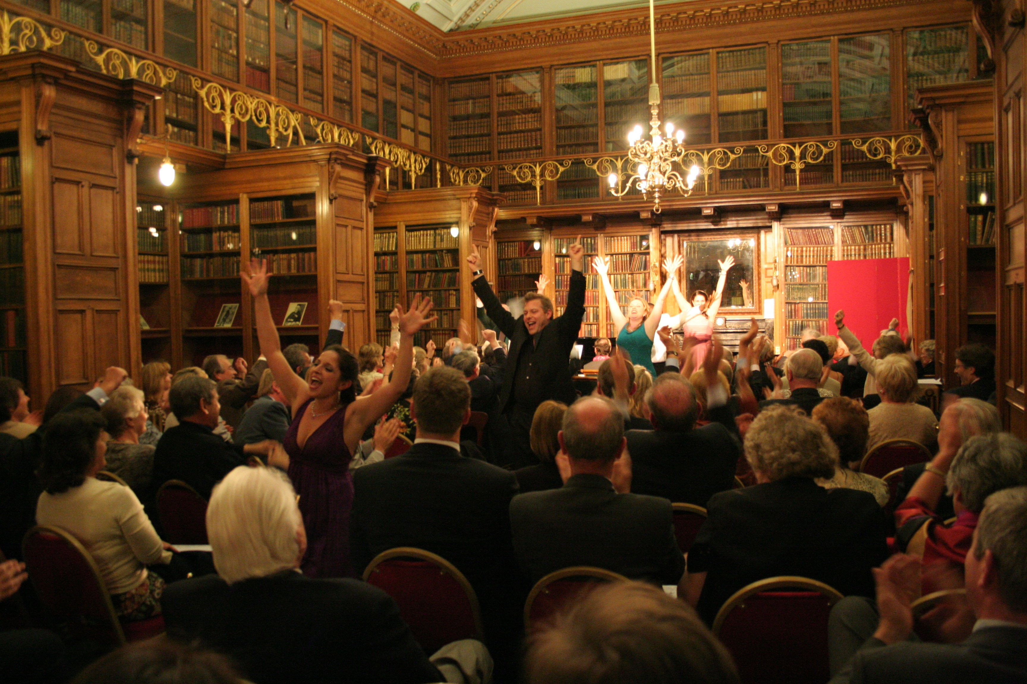 Fingask Follies at the Royal College of Physicians, Edinburgh, May 30th 2007